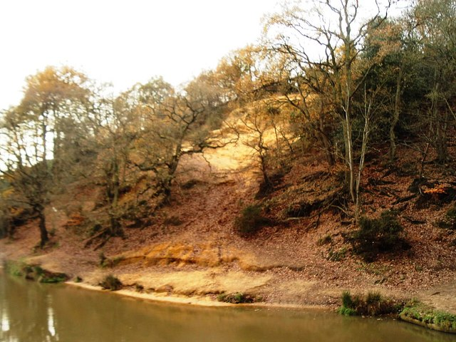 St Catherine's Hill, Guildford St Catherine's Hill on the western bank of the River Wey is formed out of the yellow-brown sandstone of the Folkestone Sands. These were deposited around 100 million years ago. Their yellow colour is due to the oxidisation (i.e. rusting) of the iron that is contained within them.